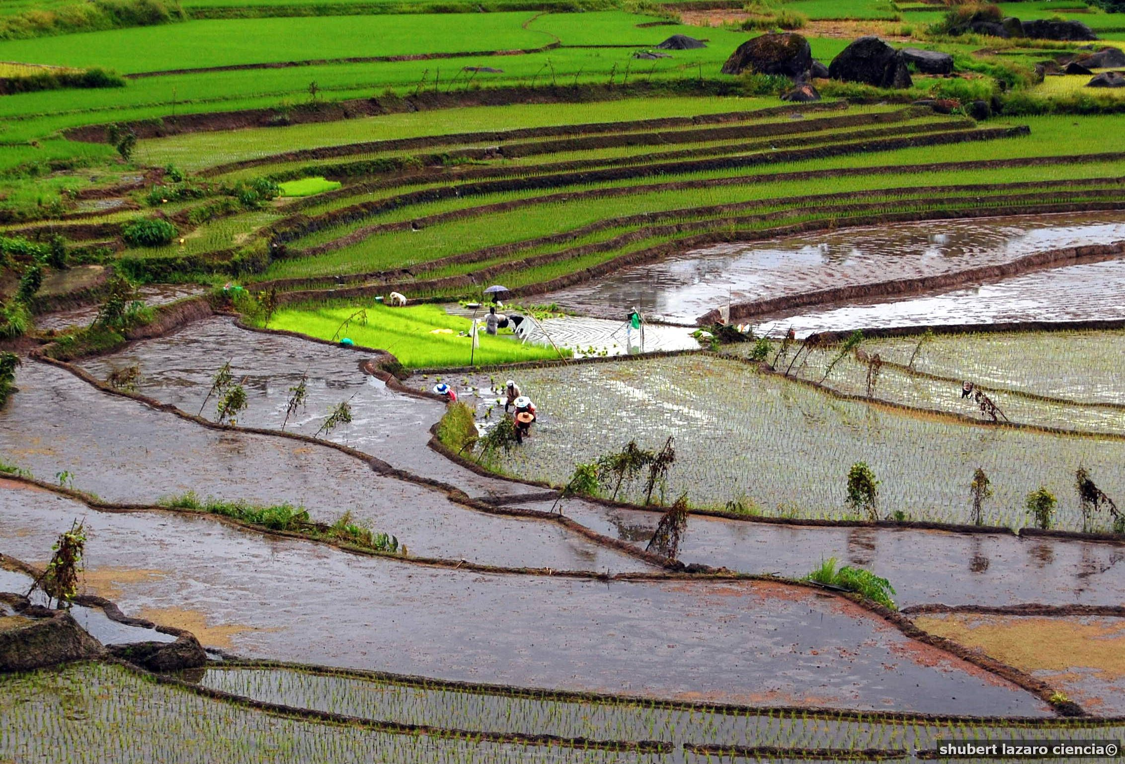 UNESCO WORLD HERITAGE SITE. farmers plant rice at the stonewalled Nagacadan Rice Terraces 20 minutes uphill in Bilong from the Kiangan town center. Nikon D40 (Kiangan LGU CBMS Training II, August 2007).